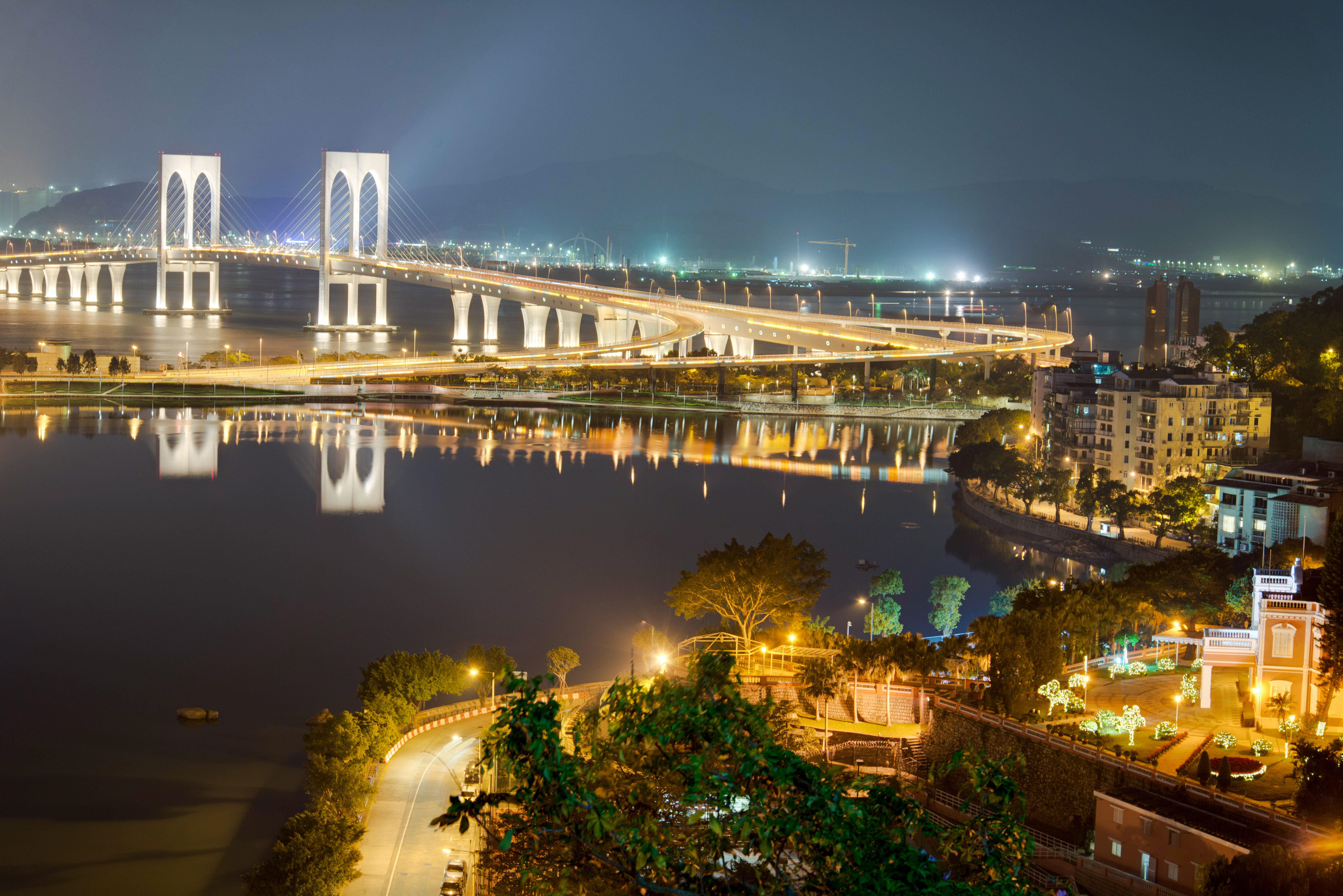 Macau